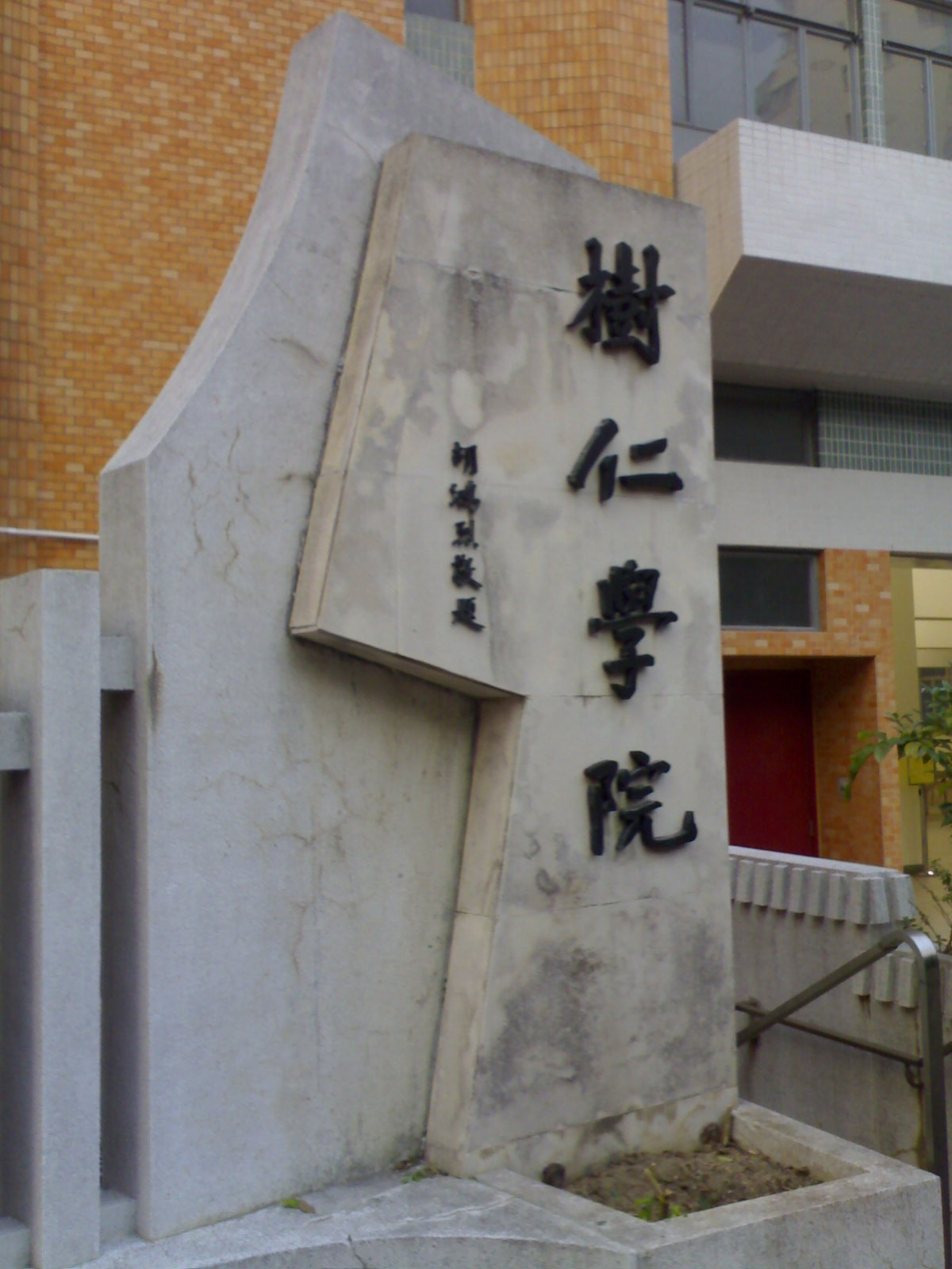 The sign stone in front of the Hong Kong Shue Yan University's Main Building, while it was a tertiary college